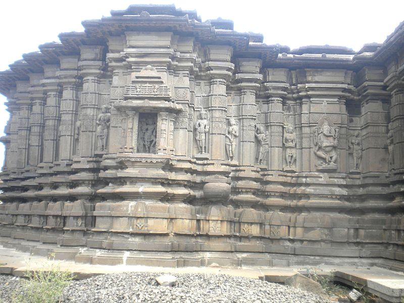 Hemadpanthi Mahadev Temple (aka Siddheshwar Temple) in Hottal, Deglur Tehsil, Nanded District, Aurangabad division, Maharashtra, India